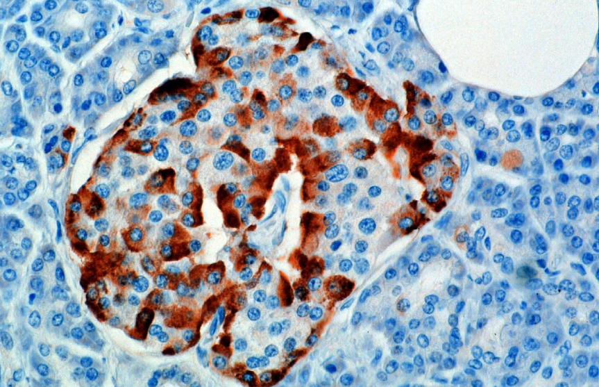 From NIH. Uploaded by Brazucs.